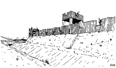 Sketch of a rampart and walls